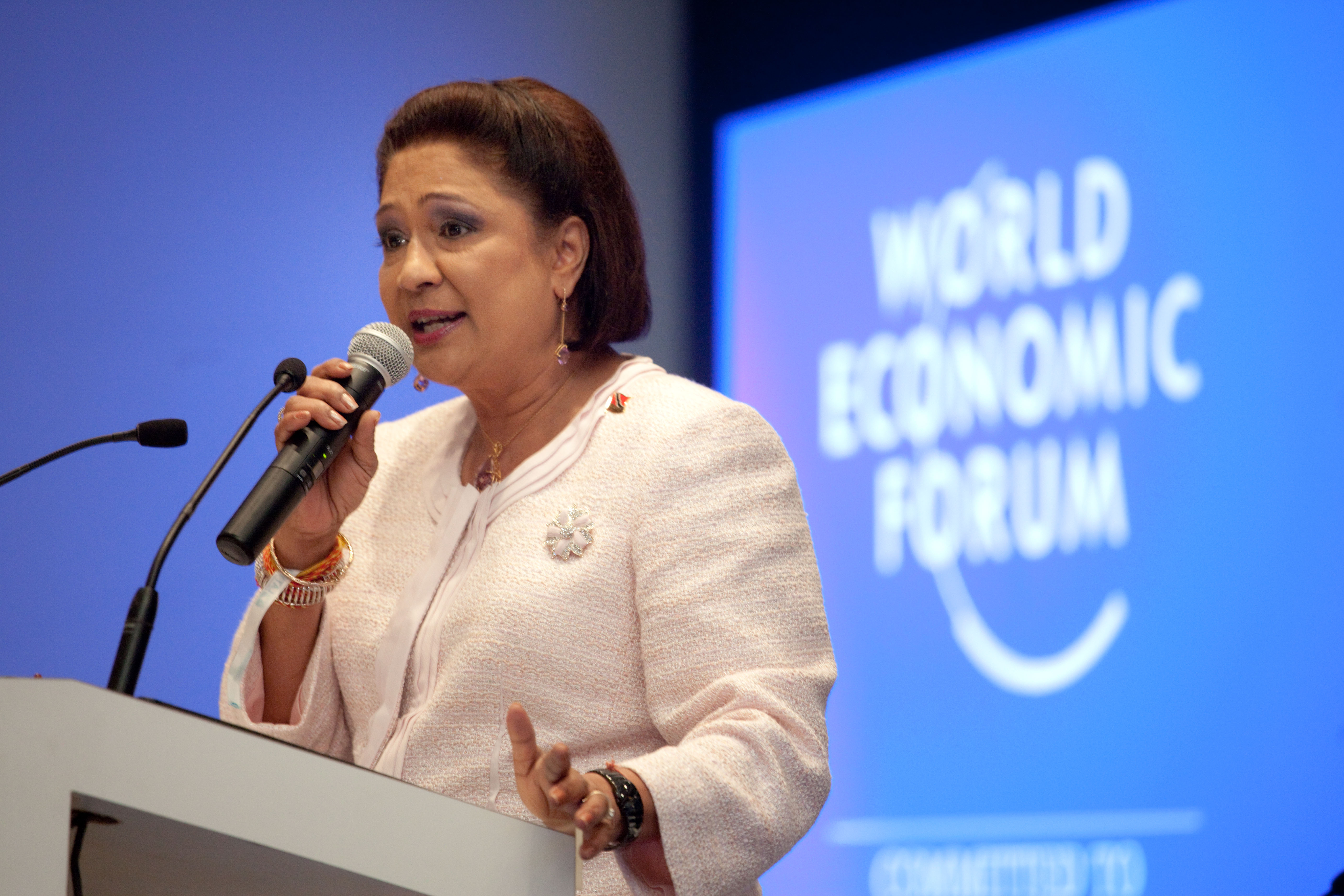 Kamla Persad-Bissessar, Prime Minister of Trinidad and Tobago, captured during the World Economic Forum on Latin America in Rio de Janeiro, Brazil, April 28, 2011.